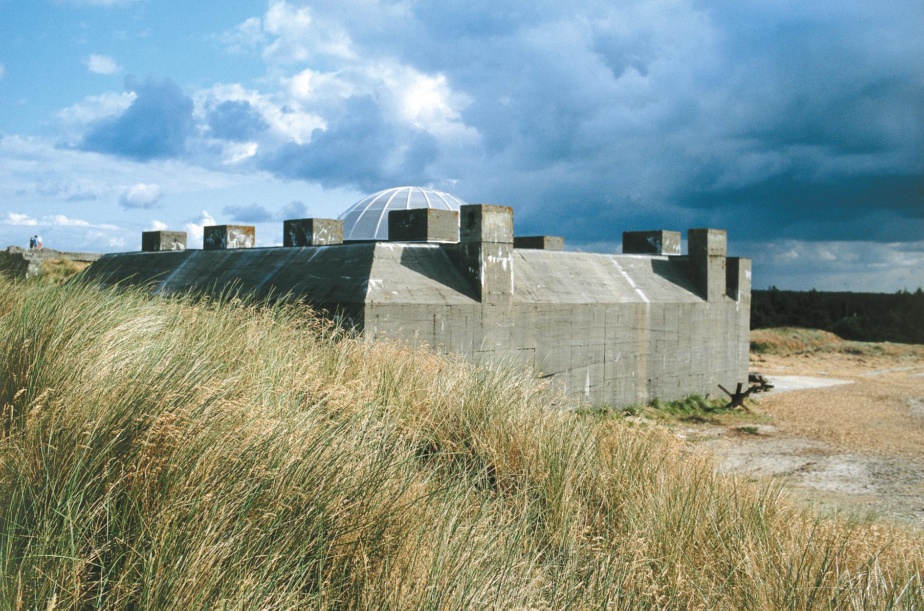 The Tirpitz position, now a museum, in Blåvand(Varde)